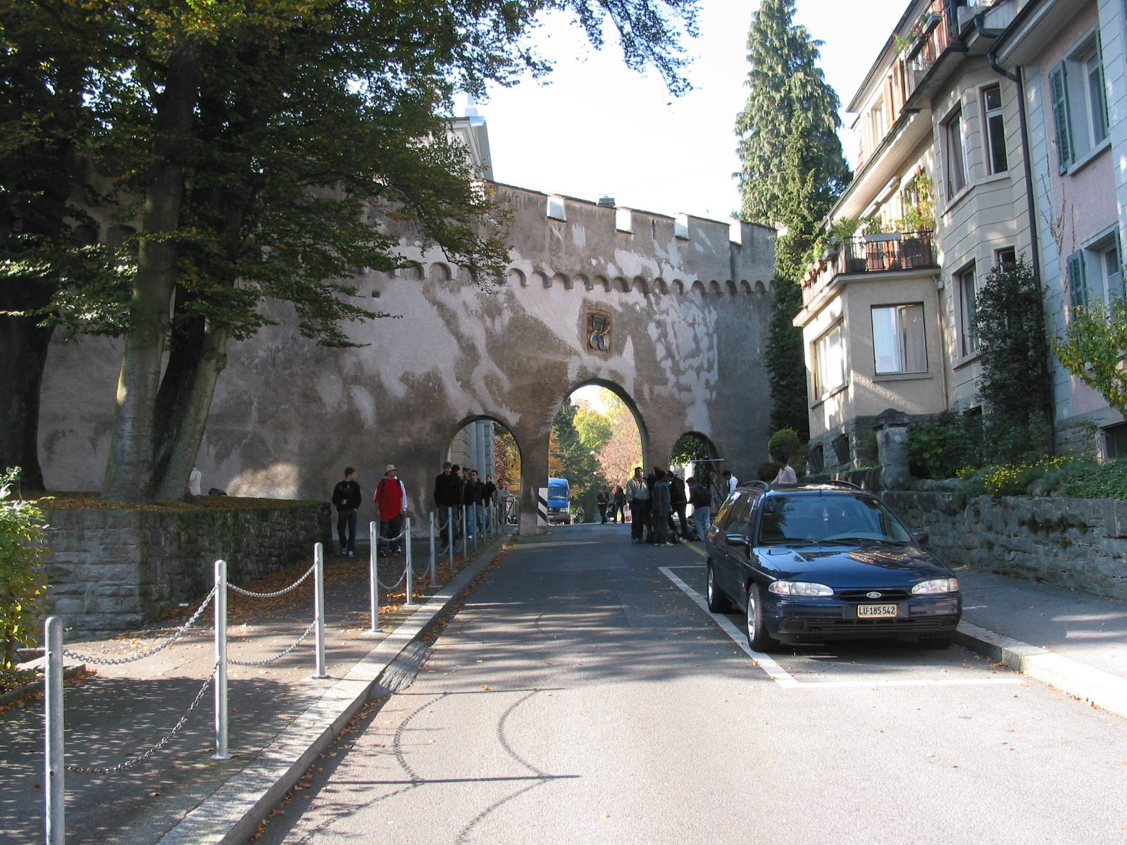 Lucerne, Museggmauer, 2006-10-17 own work